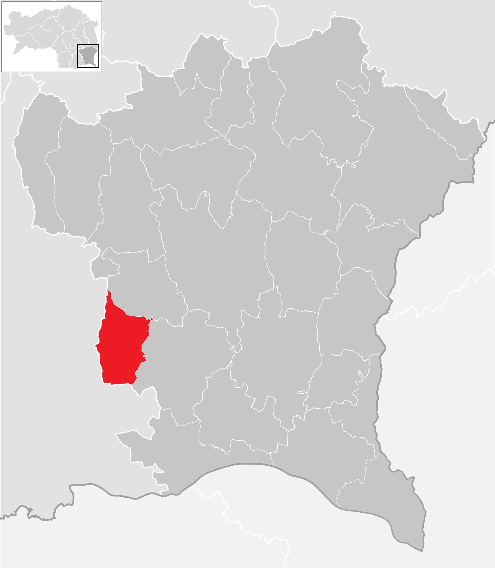 district Südoststeiermark